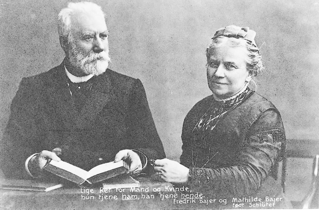 Photograph of Fredrik Bajer and his wife Matilde who were both active in Danish rights movements.